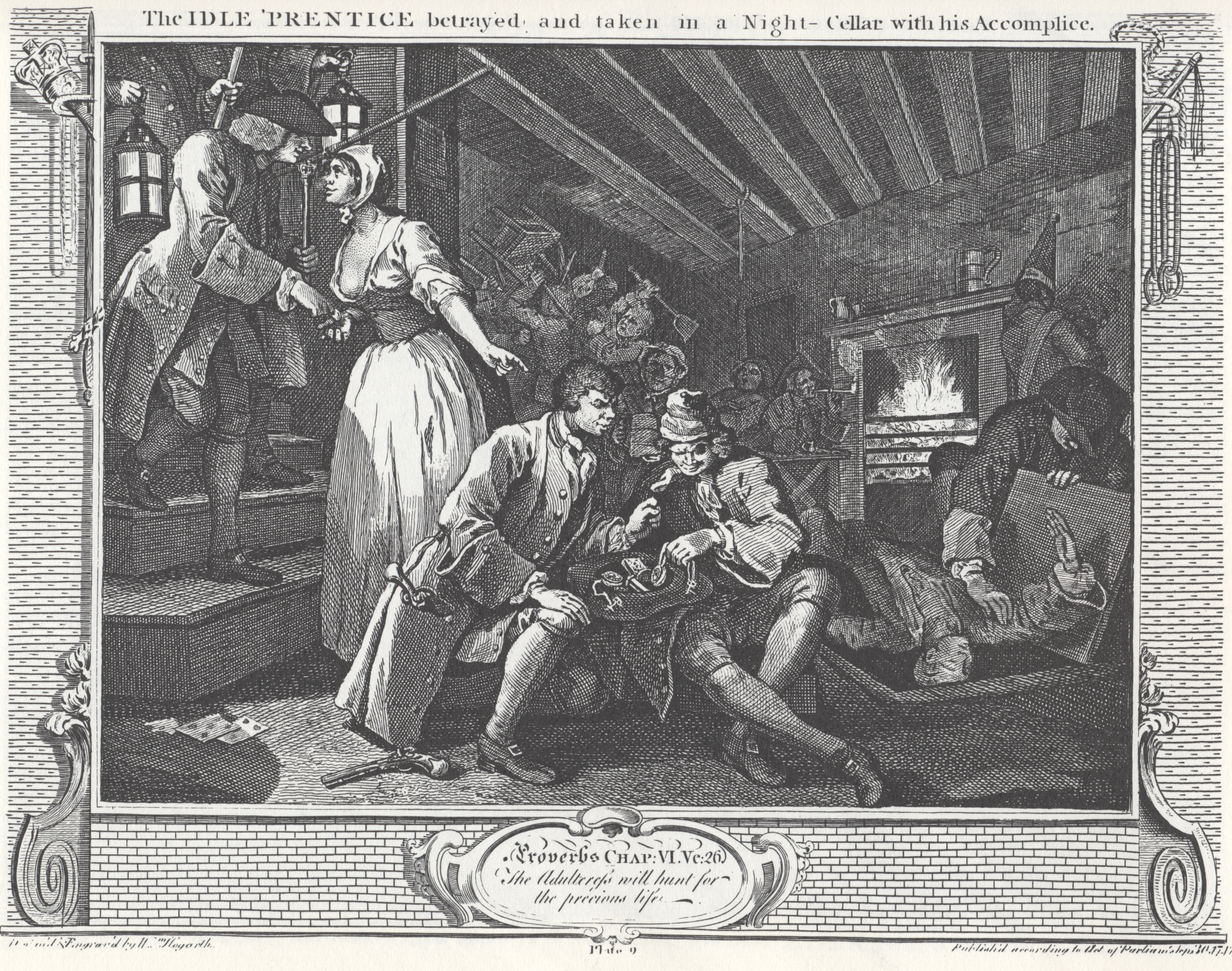 William Hogarth - Industry and Idleness, Plate 9; The Idle 'Prentice betrayed and taken in a Night-Cellar with his Accomplice